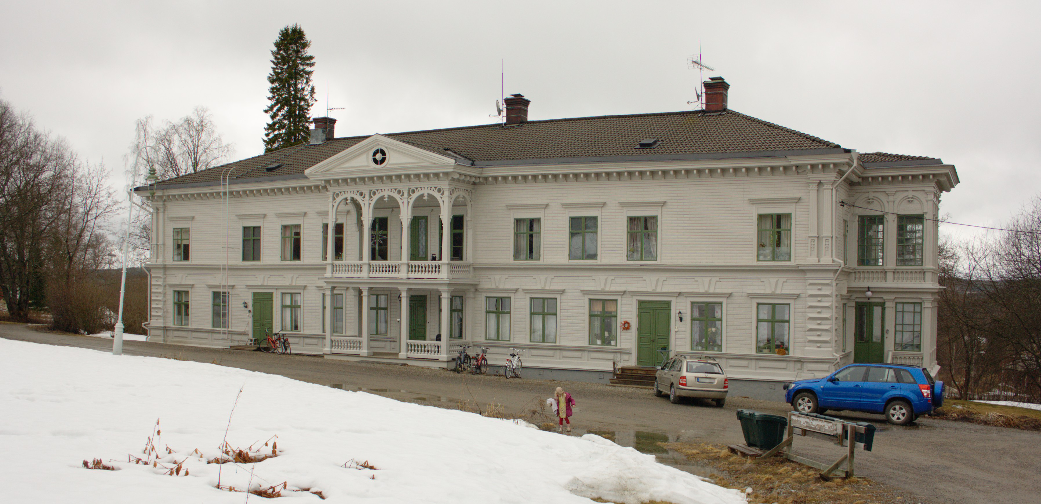 Åströmska gården ("The Åström mansion") in Vindeln, Sweden.